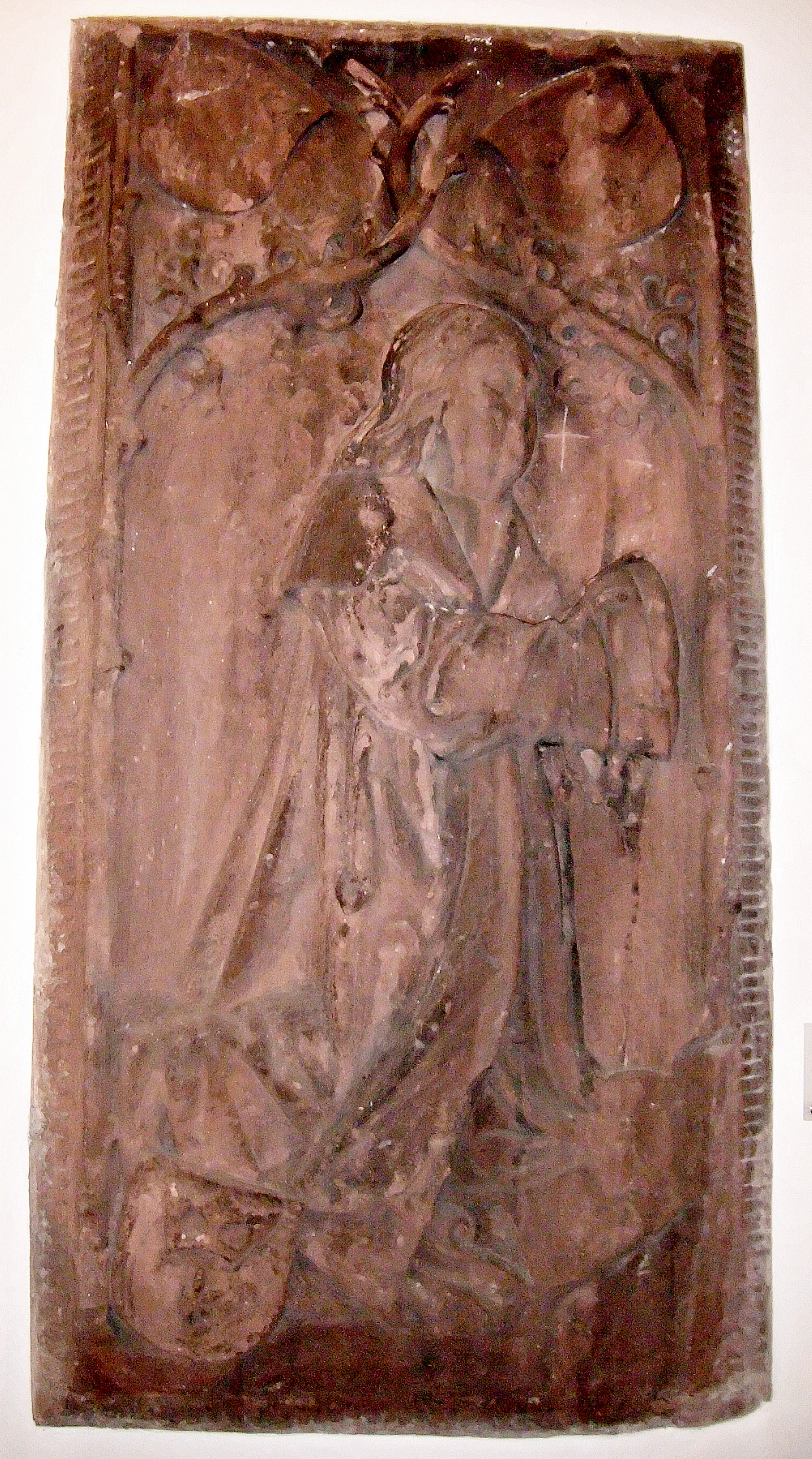 Grabstein Alexander Bellendörfer (+1512), kurpfälzischer Kanzler und Protonotar, Peterskirche Heidelberg